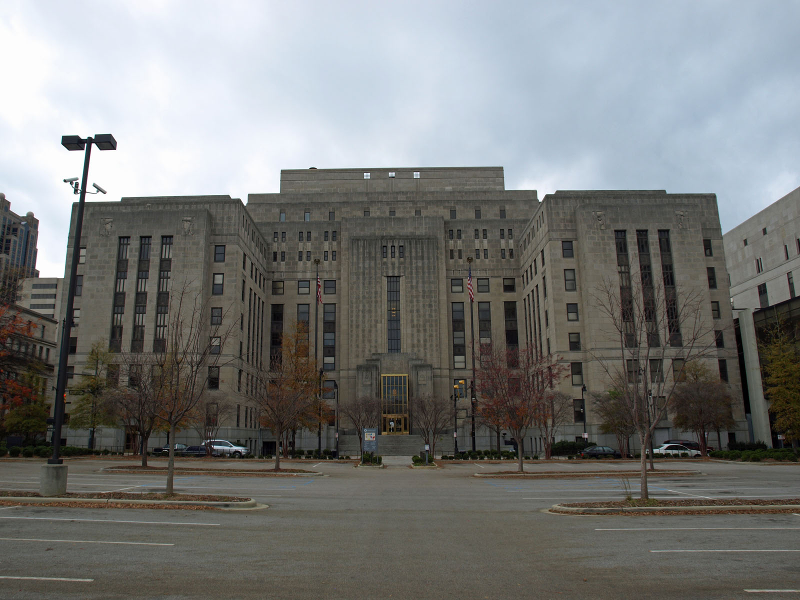 The Jefferson County Courthouse (Birmingham, Alabama)Jefferson County Courthouse in Birmingham, Alabama, listed on the National Register of Historic Places.